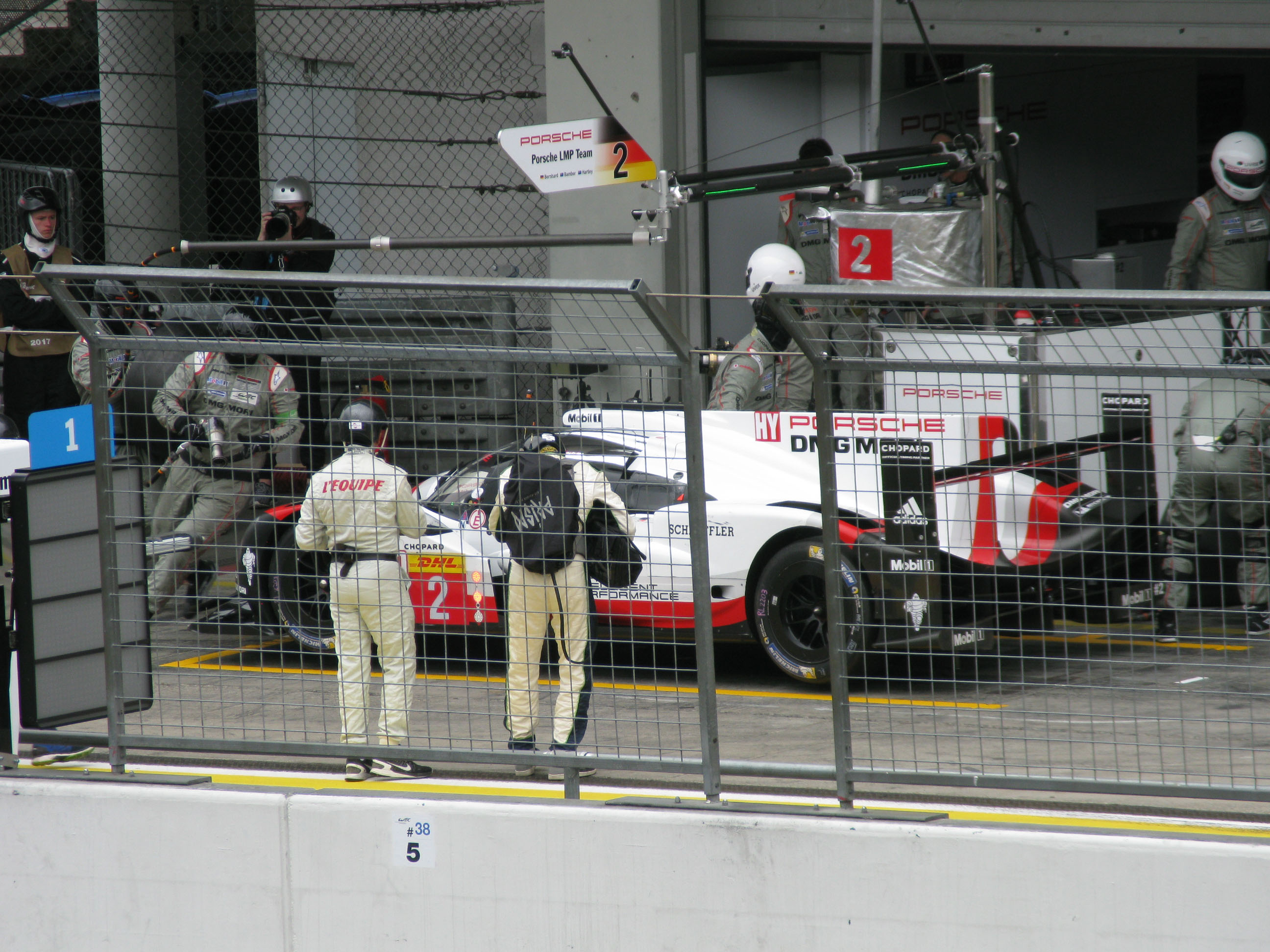 2 Porsche 919 of Porsche LMP Team.